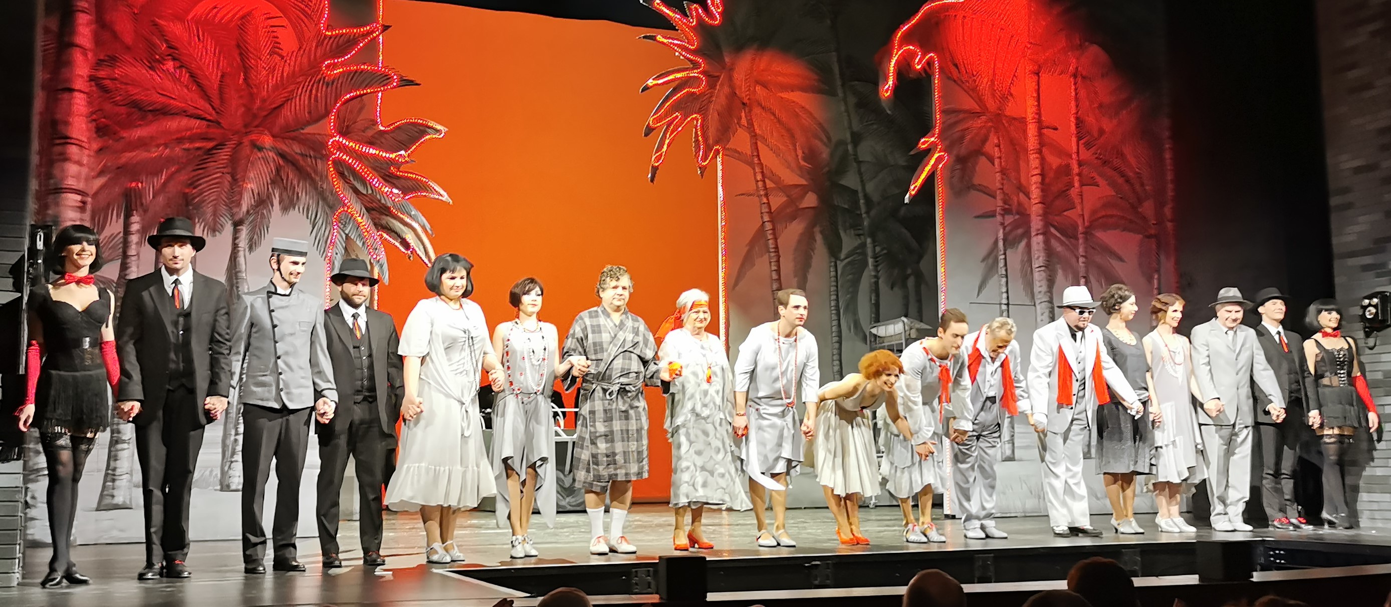 Taken on Silvester Day, on the 31st of December, 2019. Csiky Gergely Színház (theater), Kaposvár, Central Europe. Billy Wilderː Some Like it Hot to be.